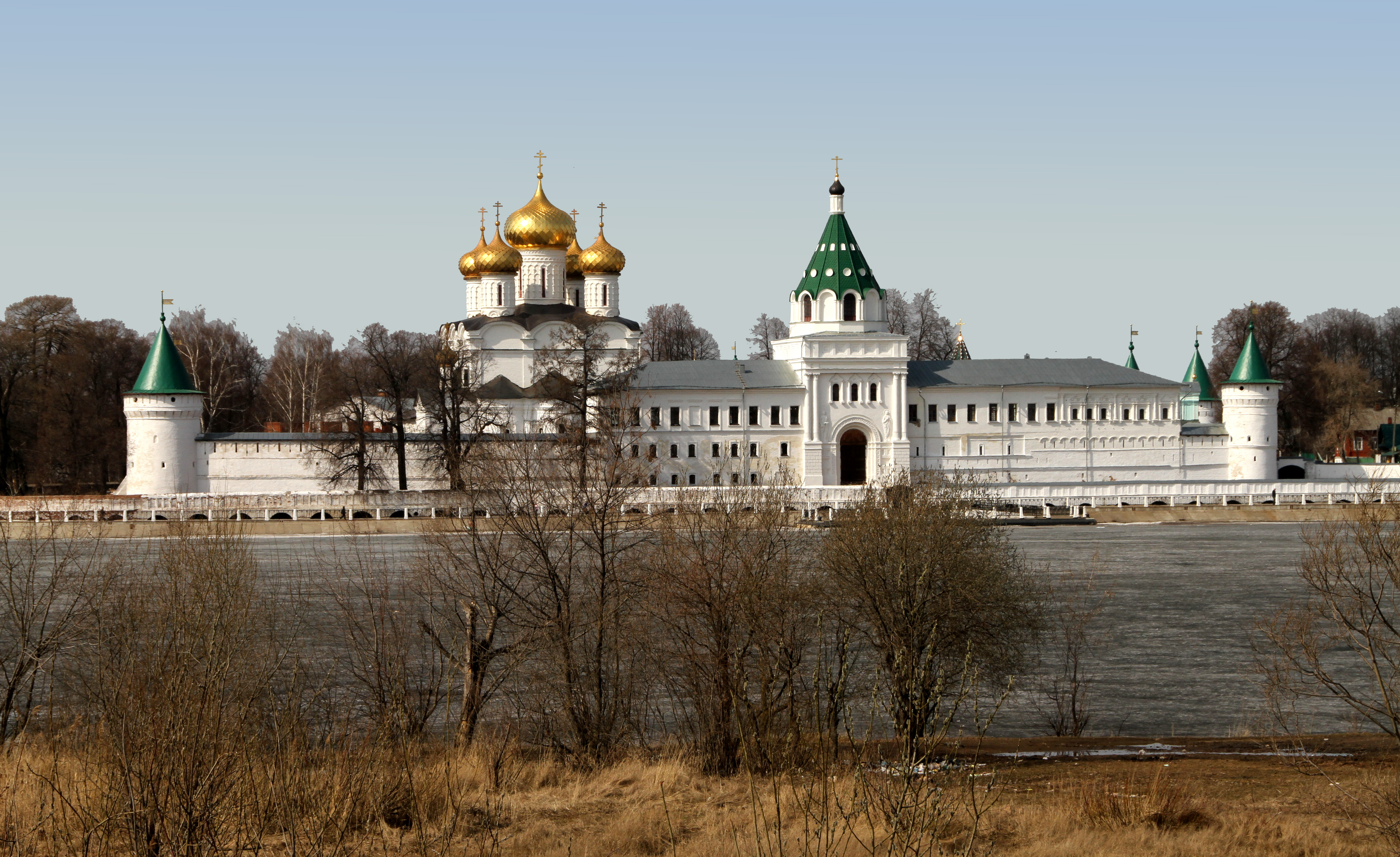 Ipatiev Monastery